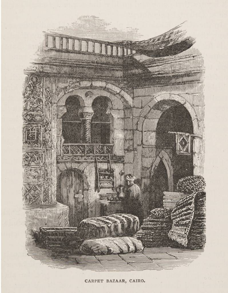 Man in open courtyard is surrounded by stacks of carpets.